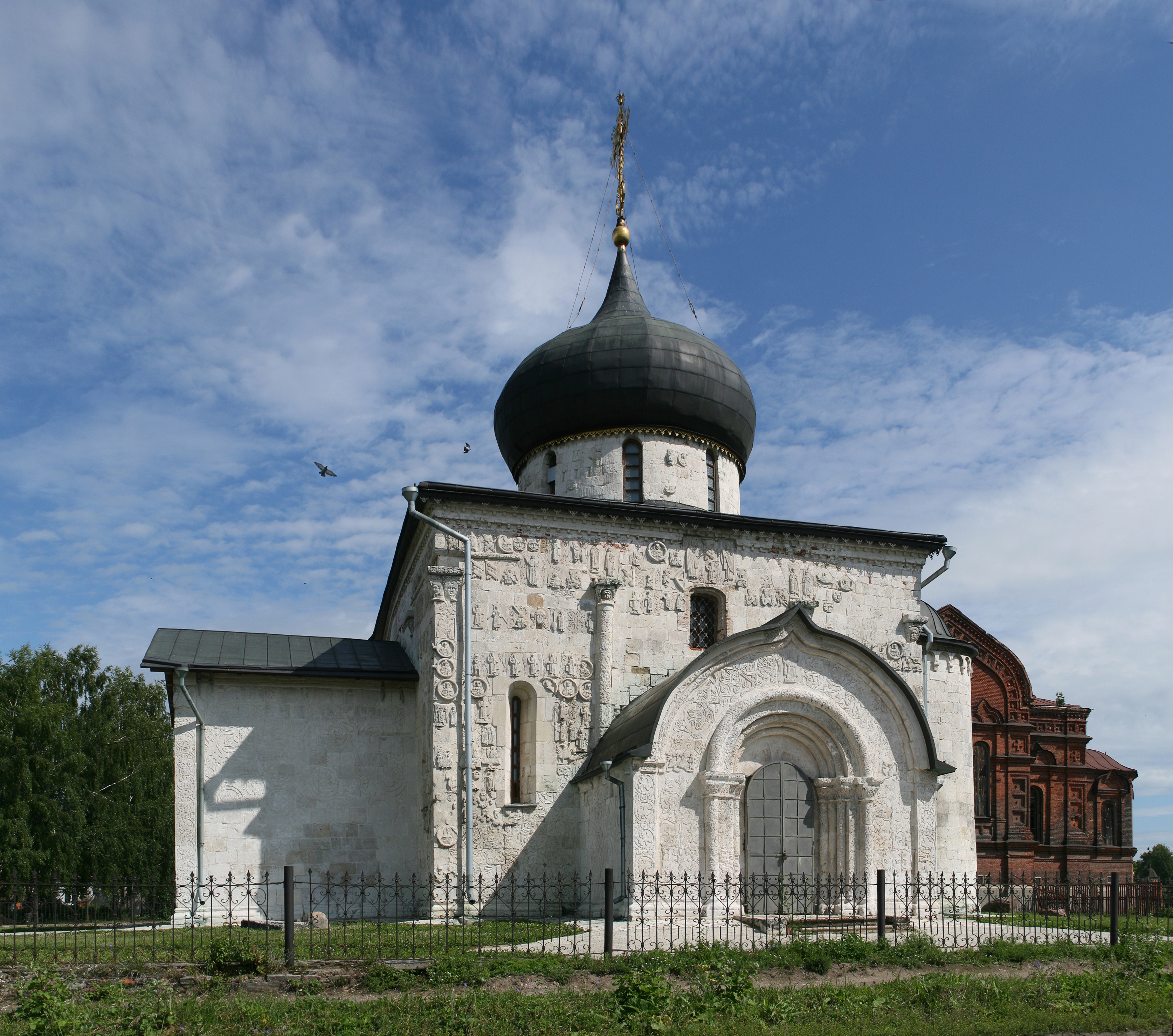 Saint George Cathedral, south side; 1230-1234, Yuryev-Polsky, Vladimir Oblast